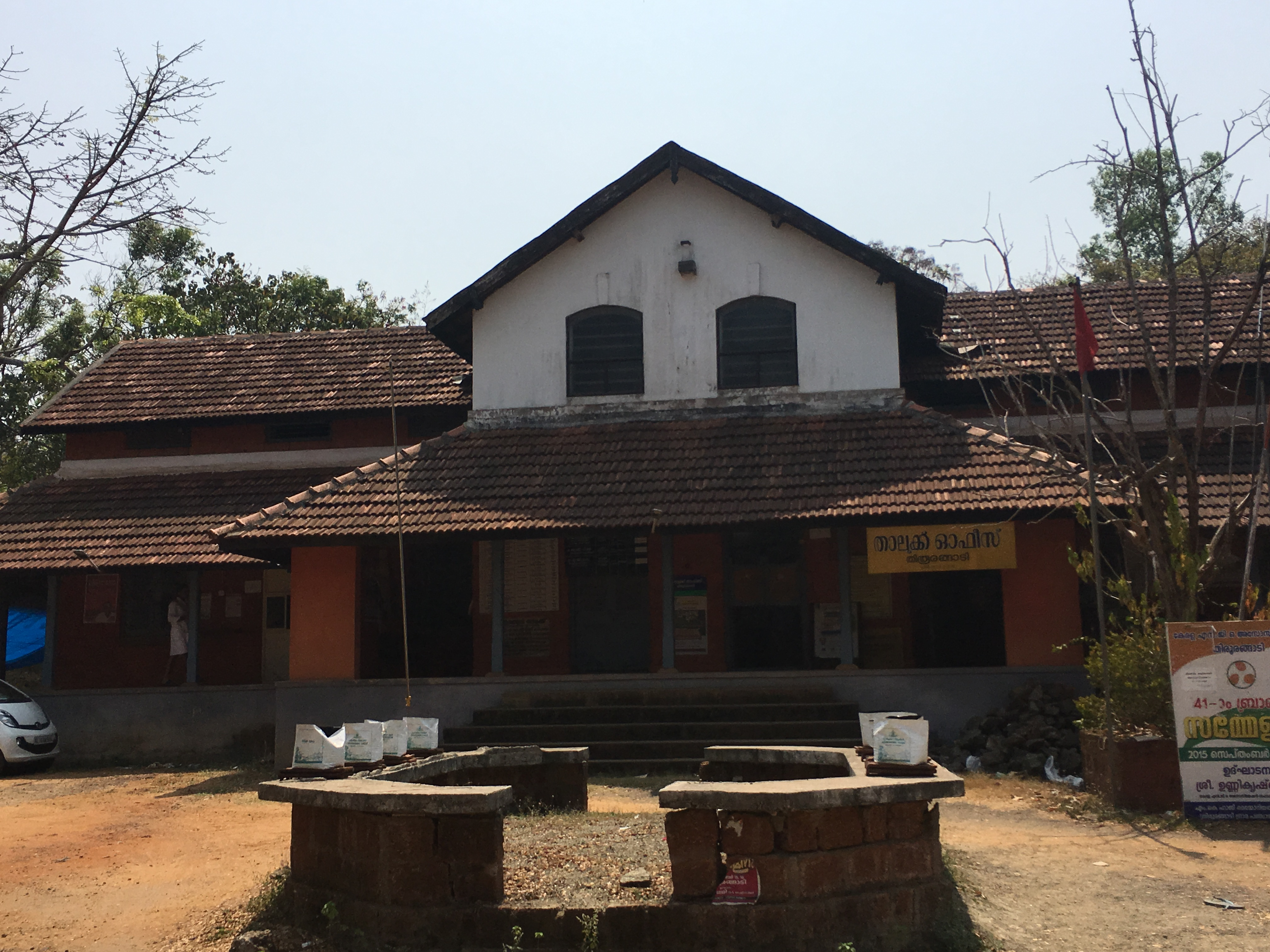 Tirurangadi Taluk office, Chemmad